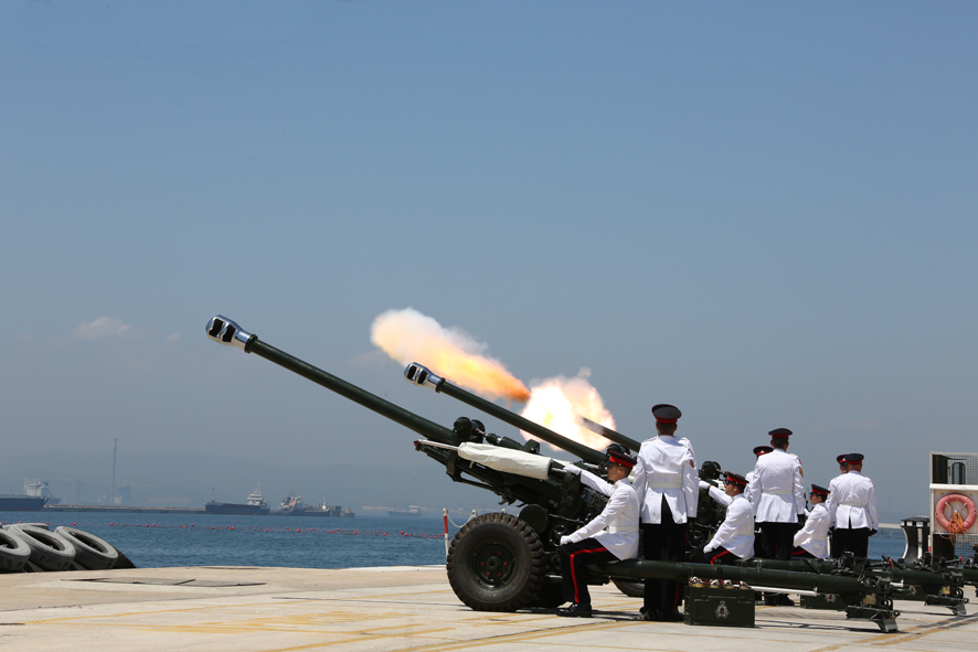 21-gun salute from the Dockyard Tower in Gibraltar